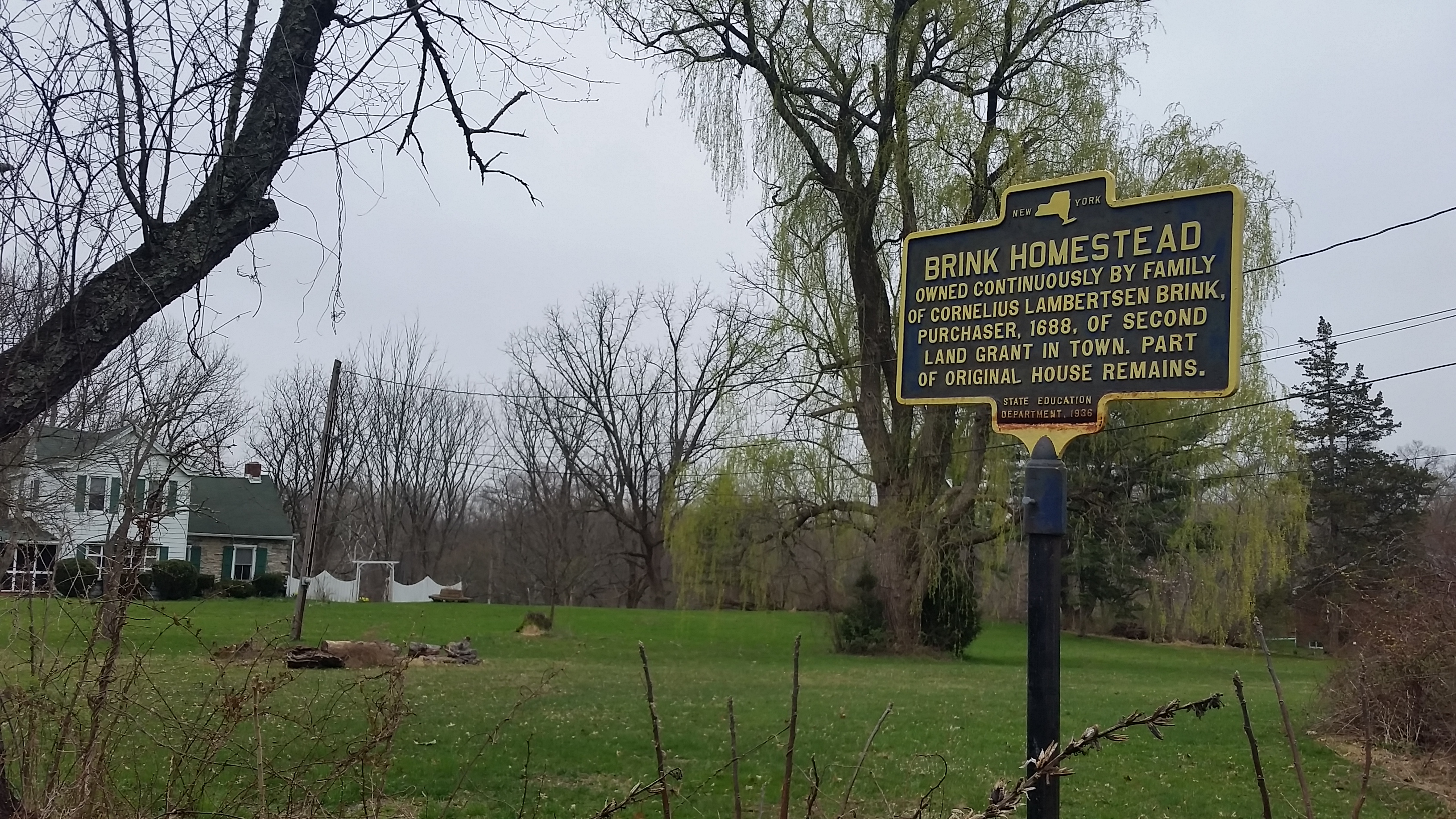 New York State historical marker for the Brink Homestead